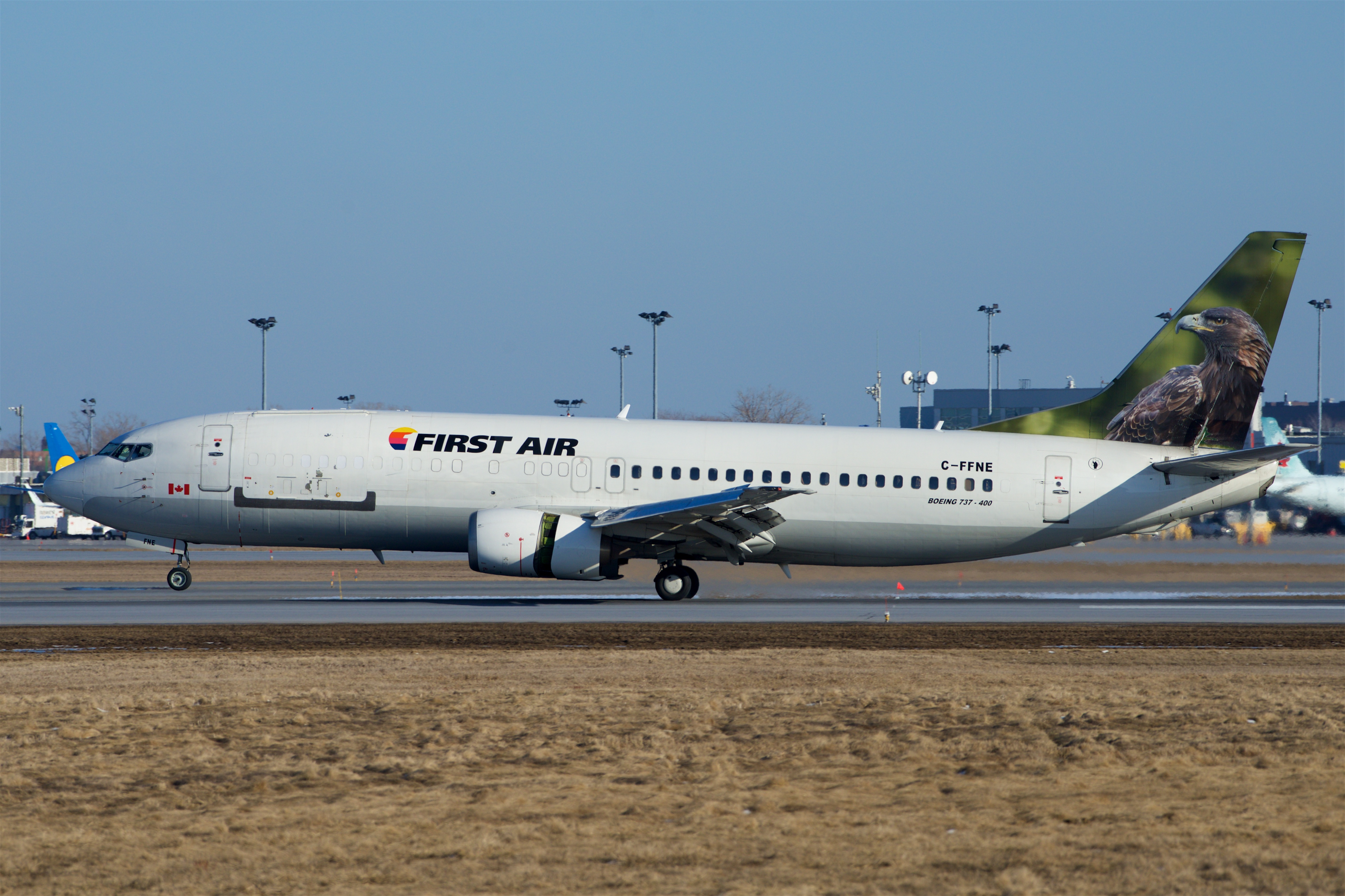 First Air Boeing 737-400 Combi C-FFNE